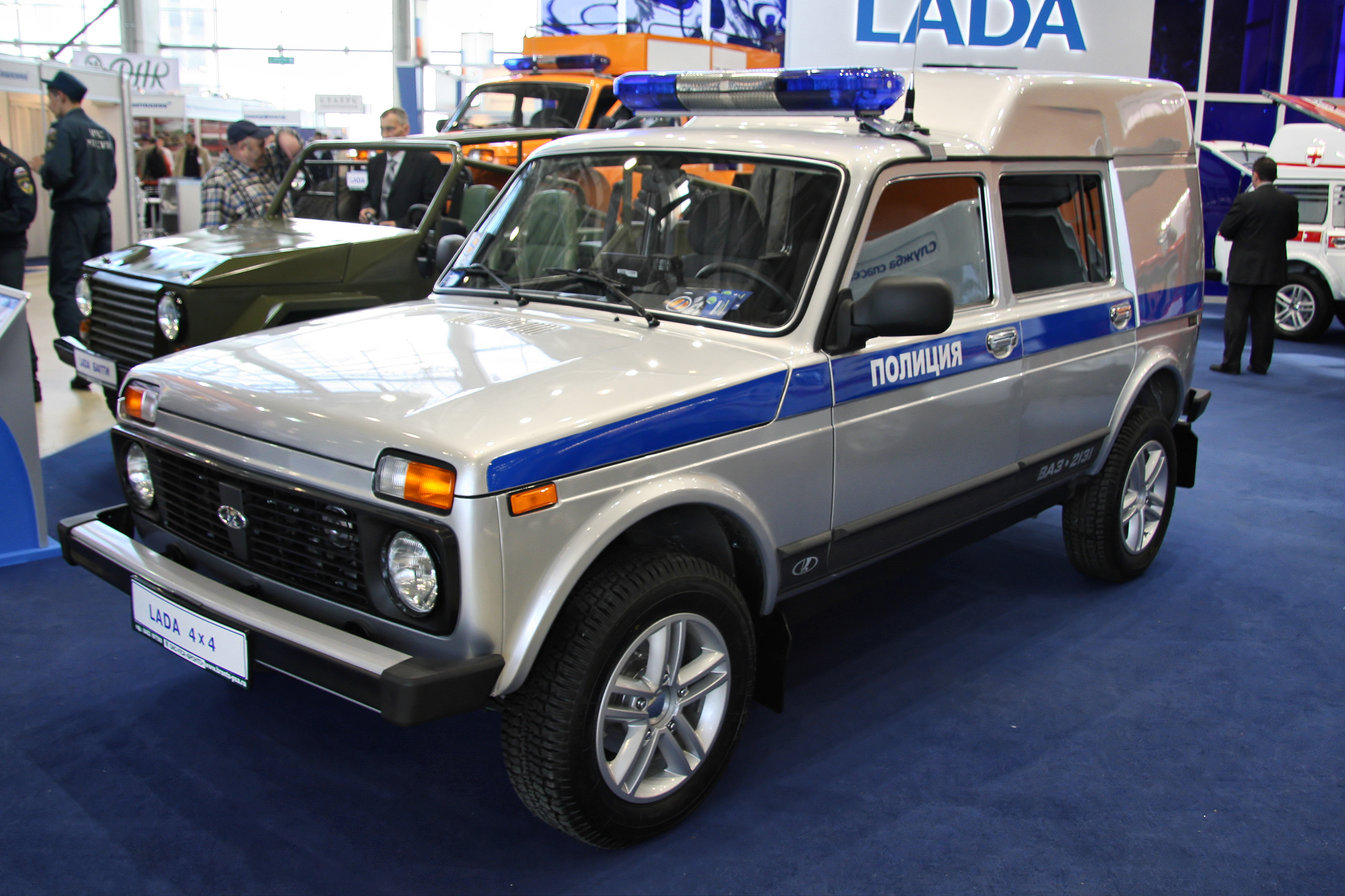 LADA 4x4 MVD